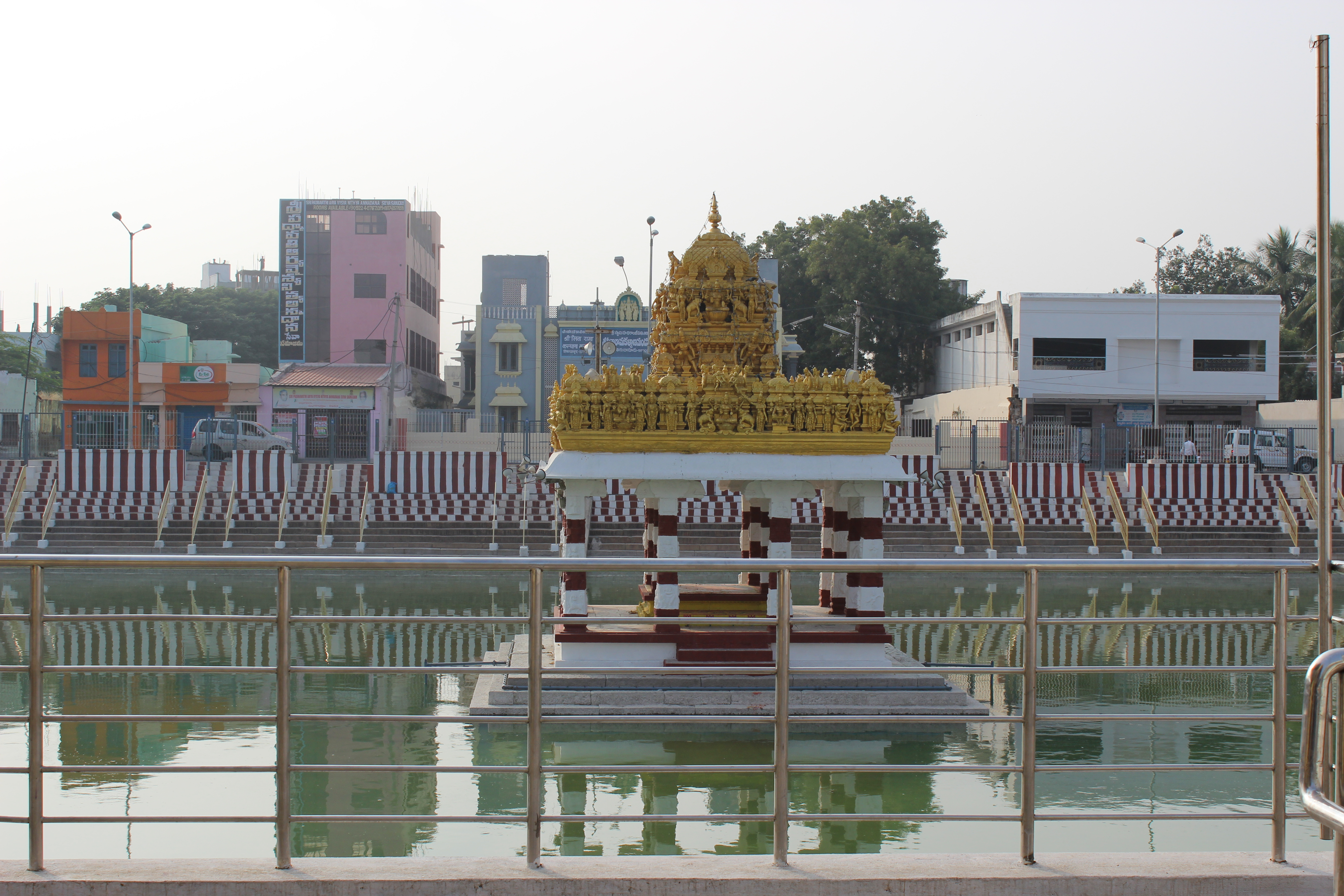 Thiruchanur